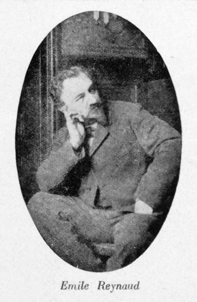 Émile Reynaud (1844-1918) was a French science teacher, responsible for the first animated films.